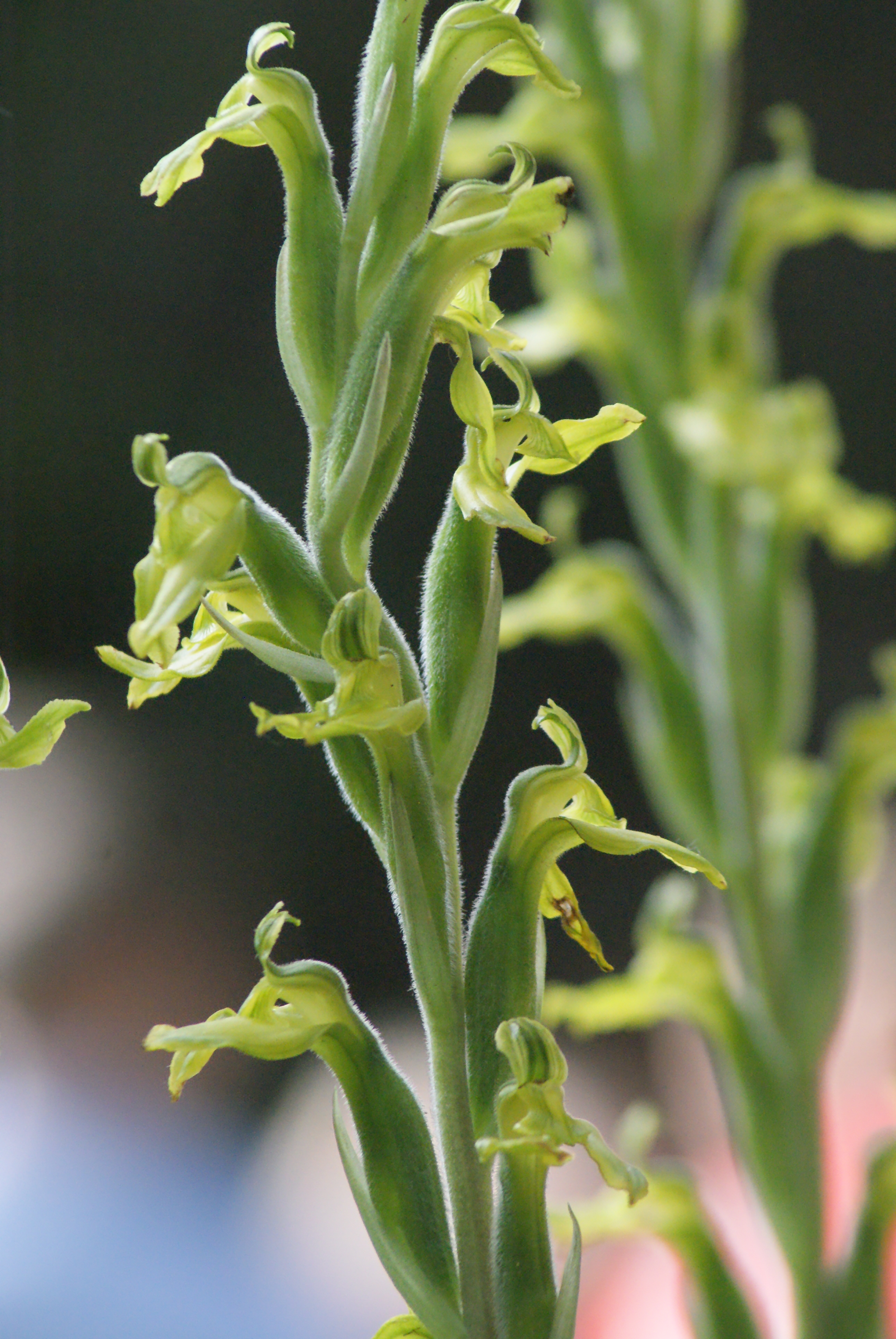 Sarcoglottis sceptrodes. One of my favorite terrestrial orchids! Easy to grow, with really pretty green and silver striped leaves. And these flowers ain't half bad neither.